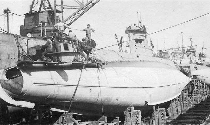 USS O-6 (Submarine # 67) in drydock with other "O" type submarines, at the Charleston Navy Yard, South Carolina, circa 1919. Original caption: “Photo # NH 103186 USS O-6 in dry dock at the Charleston Navy Yard, S.C.” — removed caption